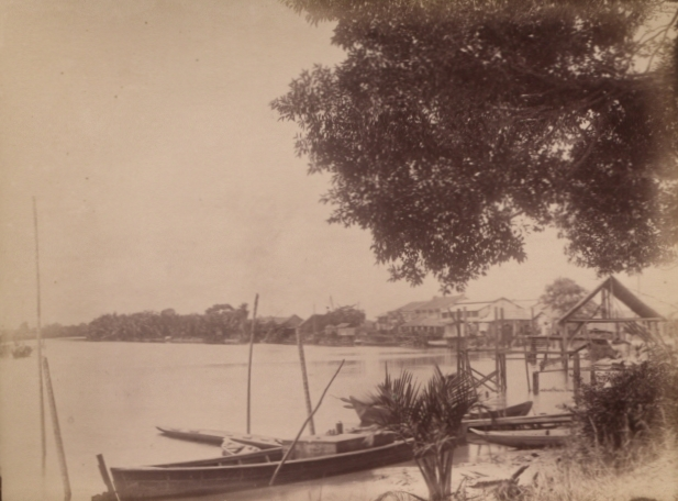 CO 1069-488-10 Description: Village of Parit Buntar from the River Krian. Location: Parit Buntar, Malaya Date: 1885-1893